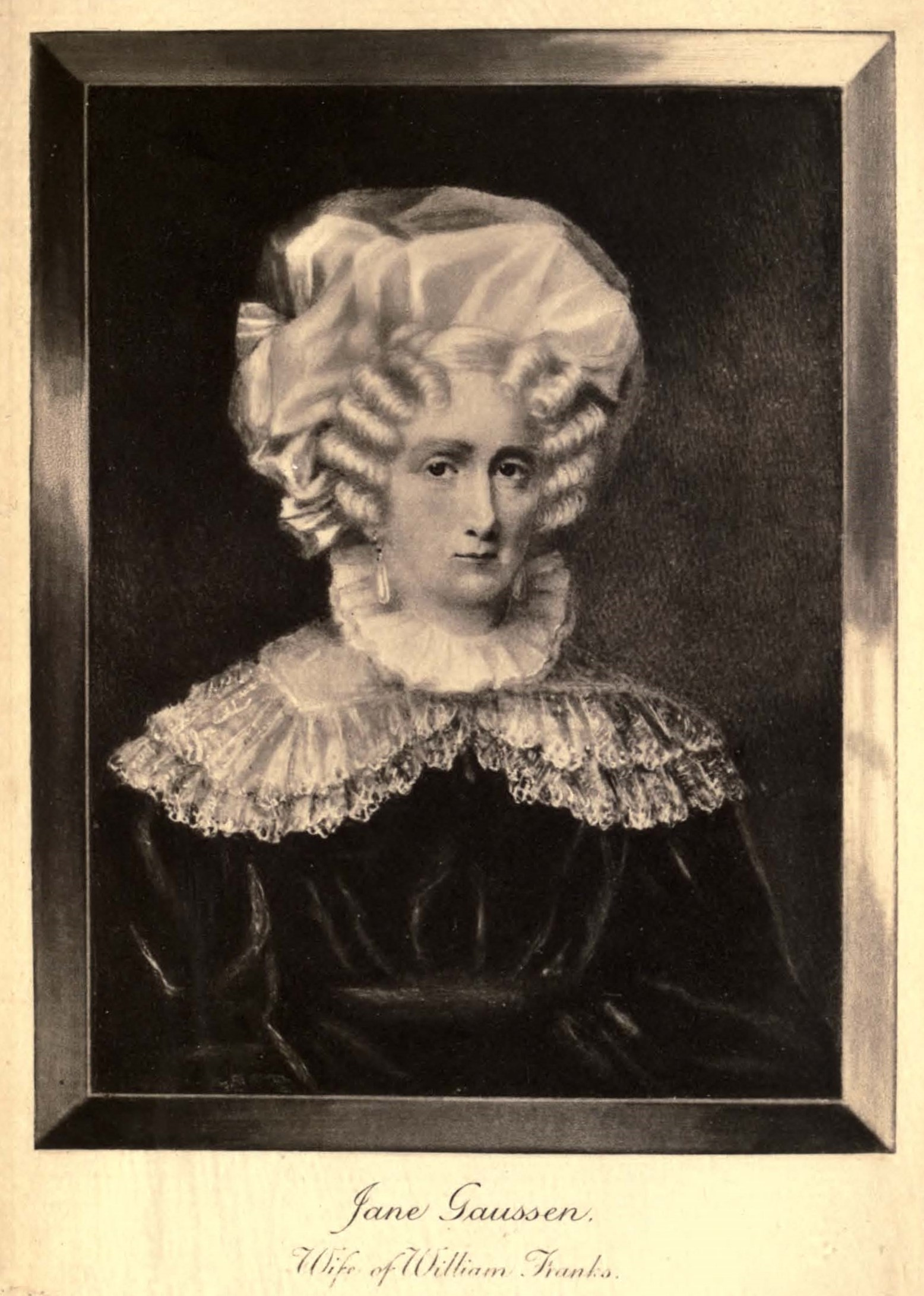 A Jane Gaussen miniature. Wife of William Franks. Undated.